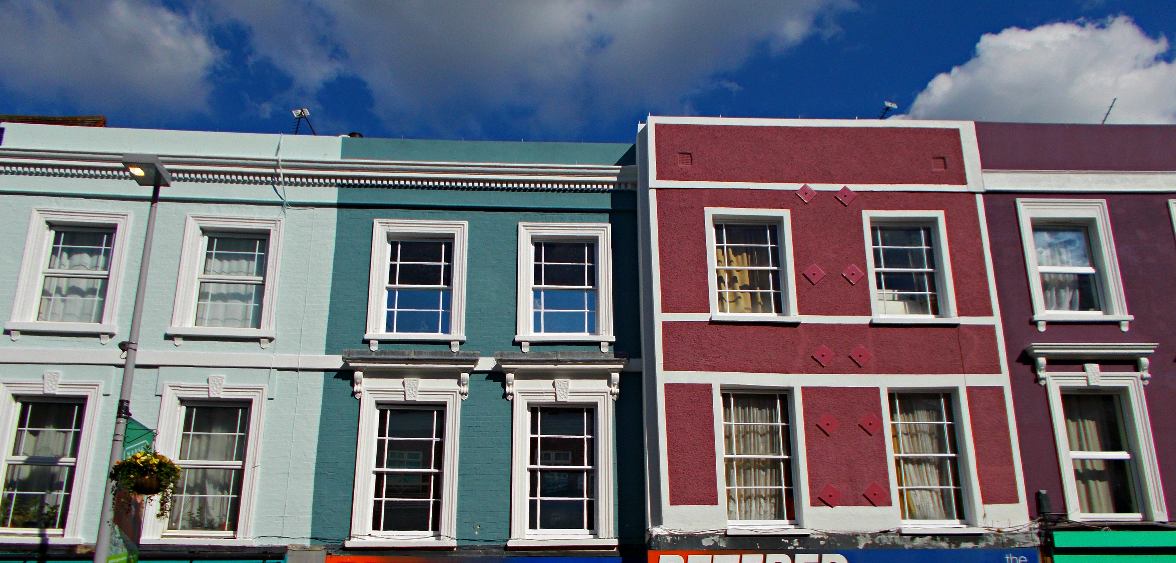 Sutton is ten miles from central London